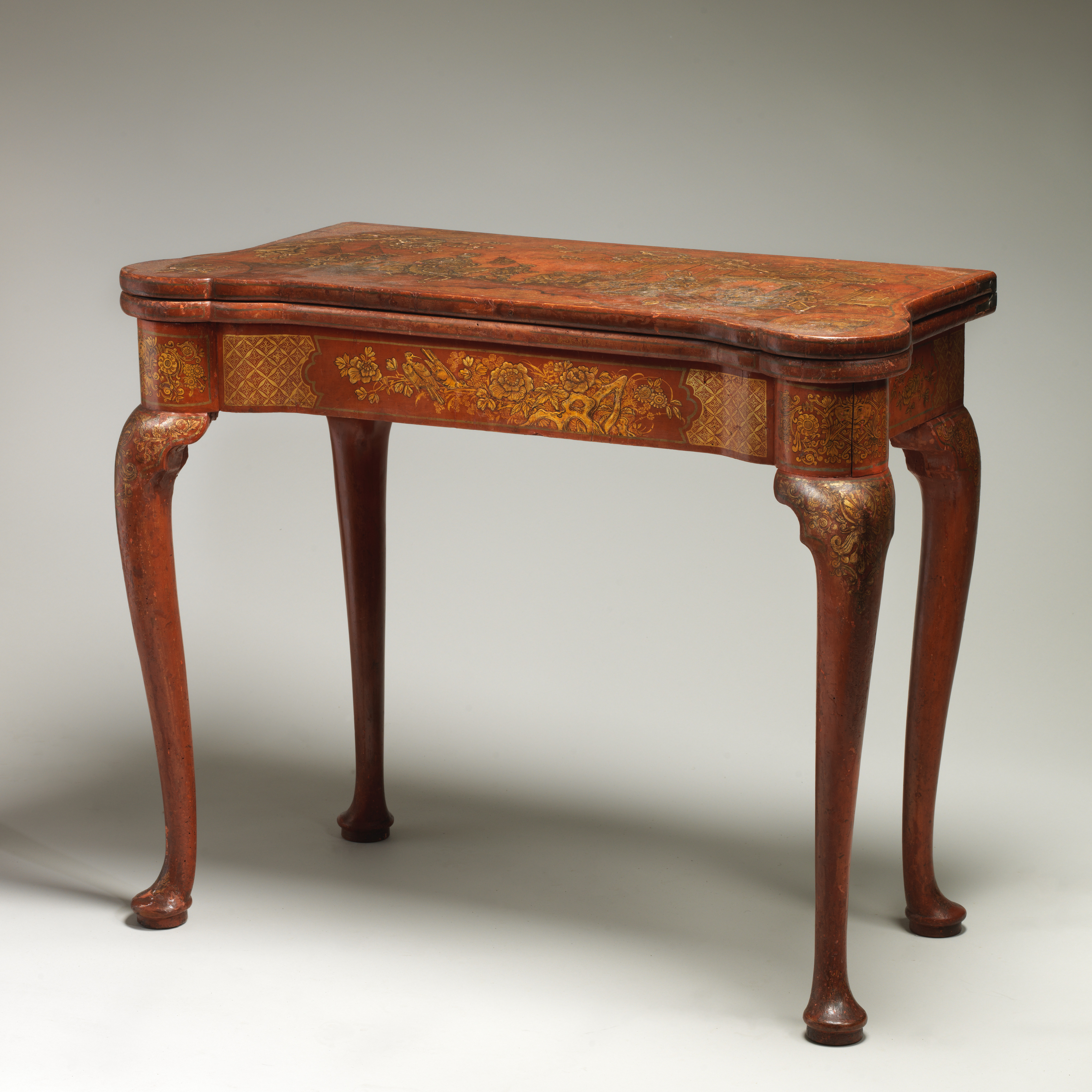 British, Clerkenwell, London; Card table; Woodwork-Furniture